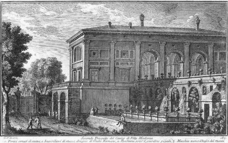 1) Loggia decorated by Giulio Romano; 2) peschiera (a fountain with fish); 3) side towards the hill (Monte Mario).